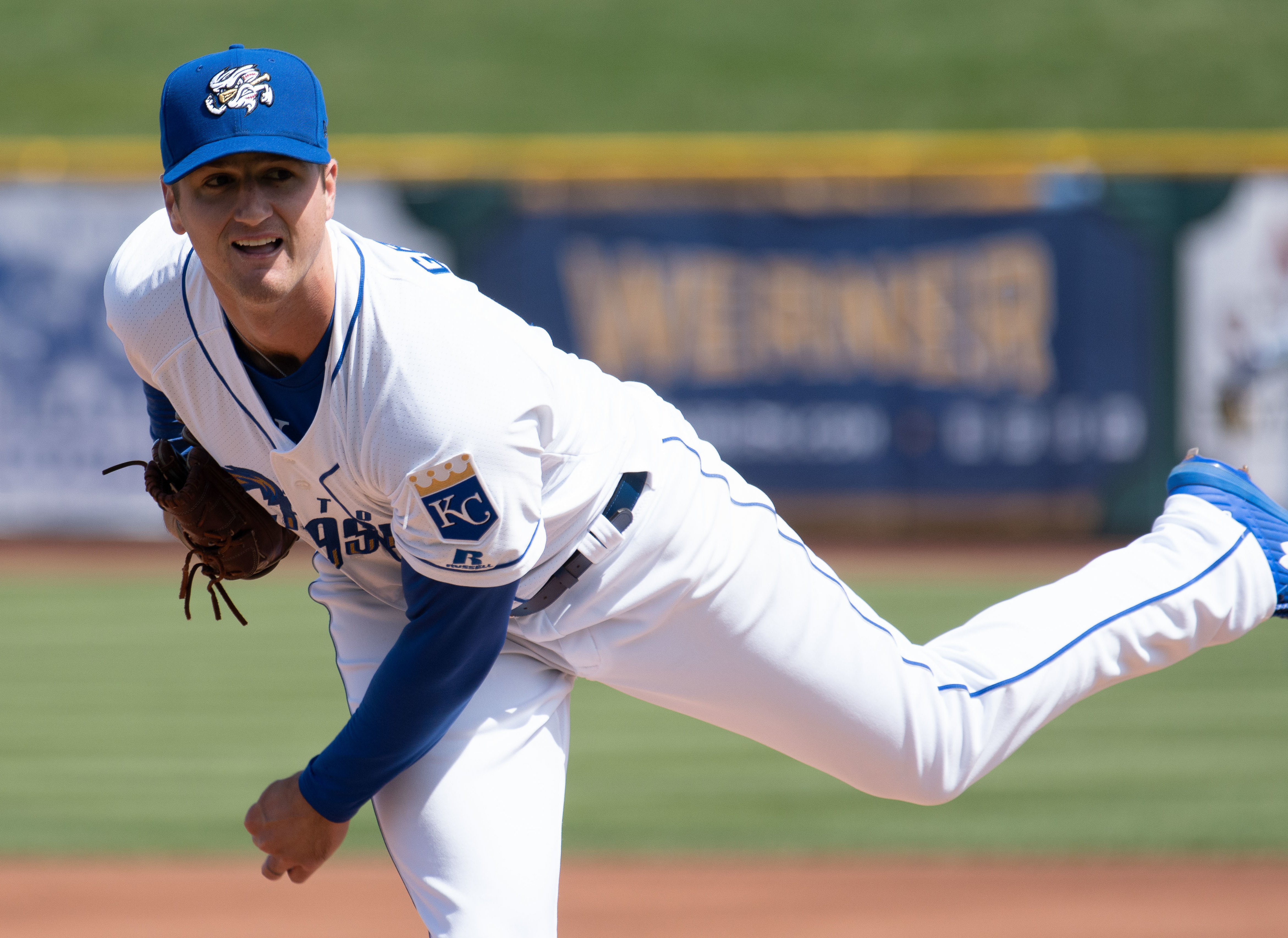 Foster Griffin pitches for the Omaha Storm Chasers during an April 2019 game at Werner Park in Nebraska.